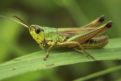 Meadow grasshopper (Chorthippus parallelus)